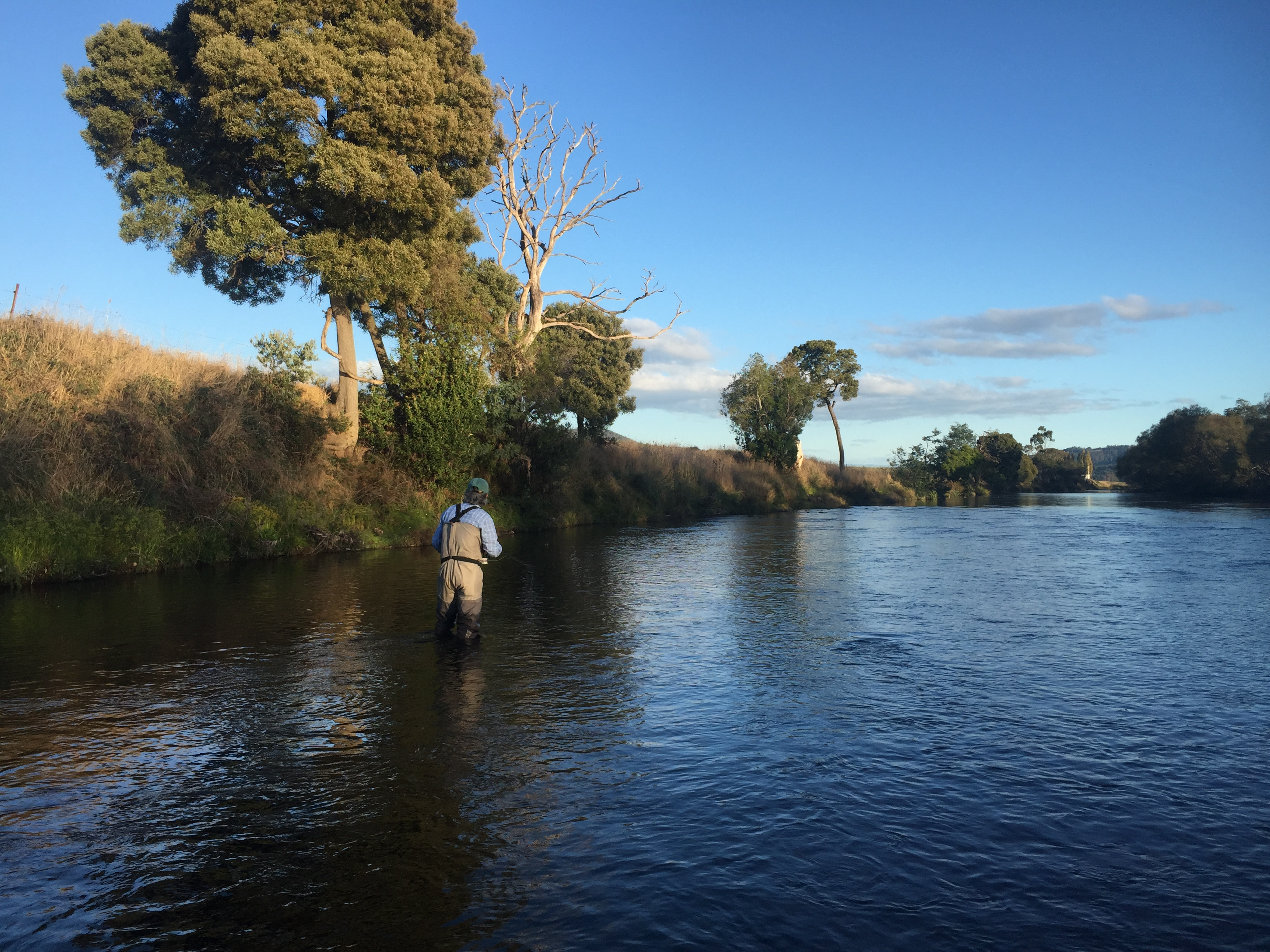 Fly fishing the Mersey River, Tasmania